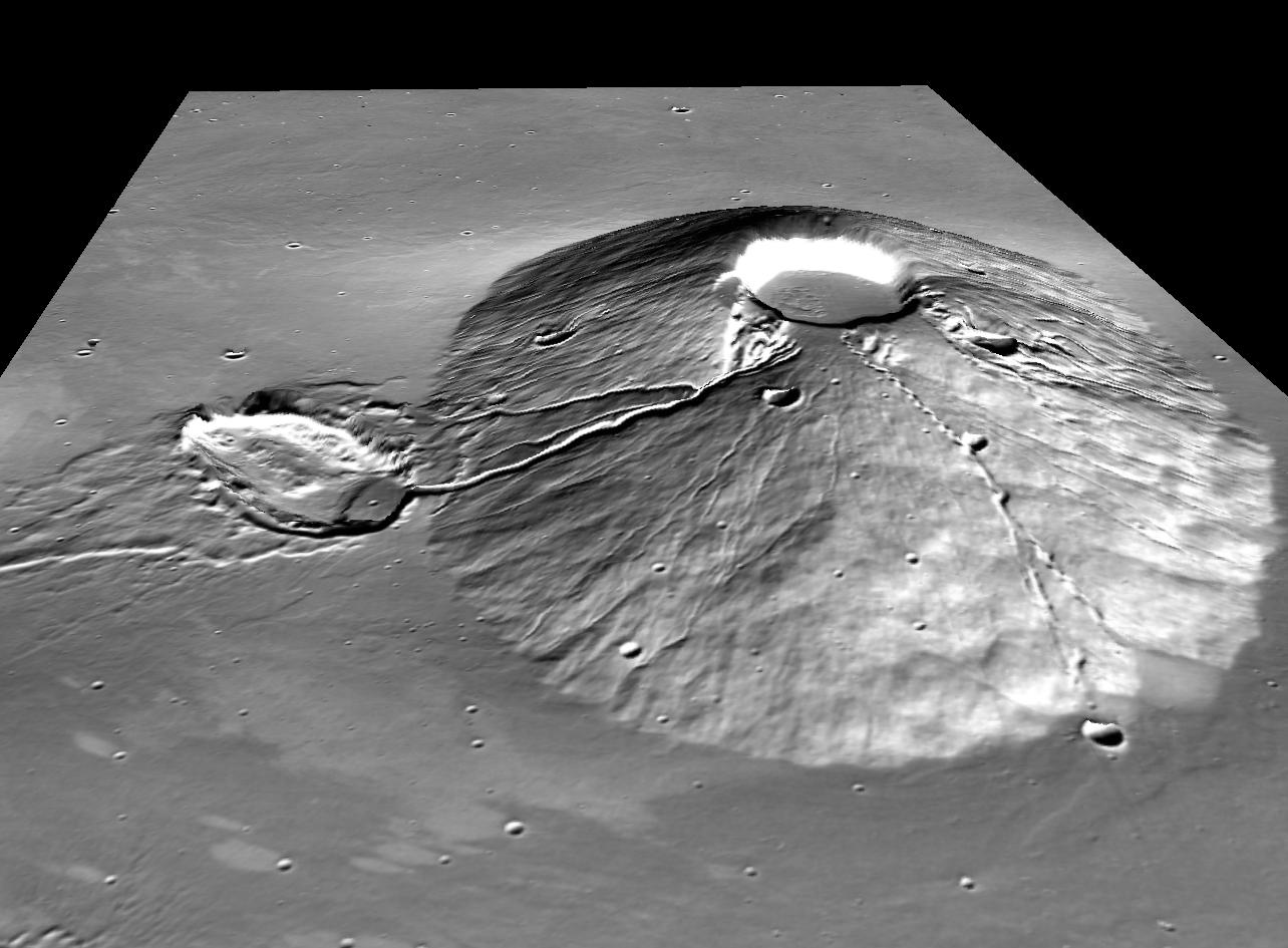 Computer-generated oblique view of the volcano Ceraunius Tholus in the northeast part of the Tharsis region of Mars. The image was created from THEMIS daytime infrared coverage in combination with the MOLA altimetry data set. The view is from the west. The vertical dimension is exaggerated by a factor of 5. The oblique impact crater Rahe is at left.